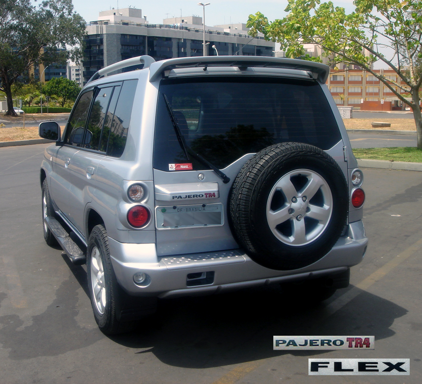 Brazilian version of Mitsubishi Montero: Mitsubishi Pajero TR4, available with version flexible-fuel. 2008